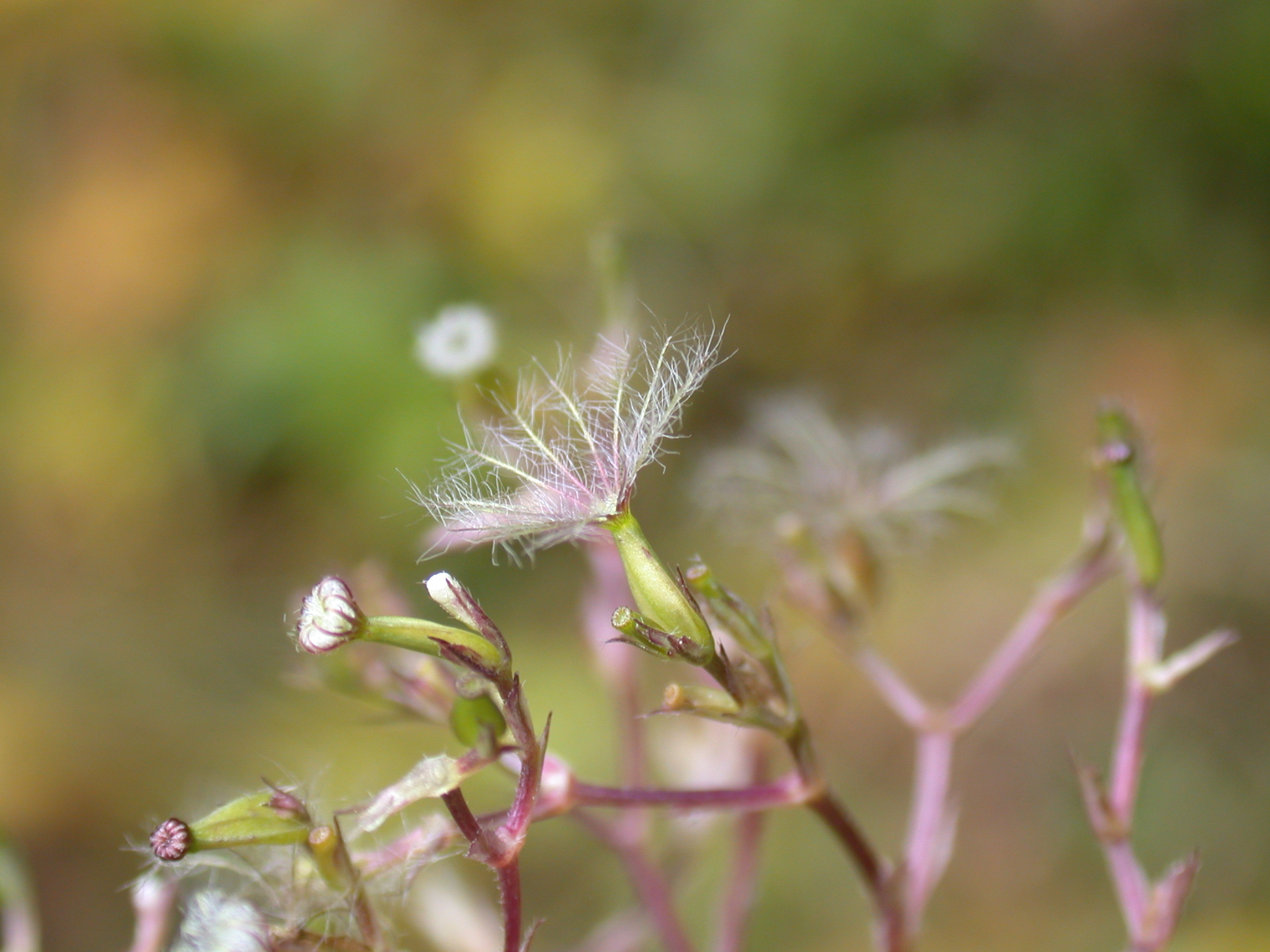 Fruit with pappus of Valeriana officinalis (Caprifoliaceae); Mont Tendre, Canton of Vaud, Switzerland